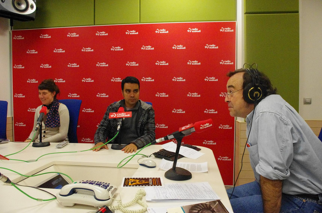 Roge Blasco.